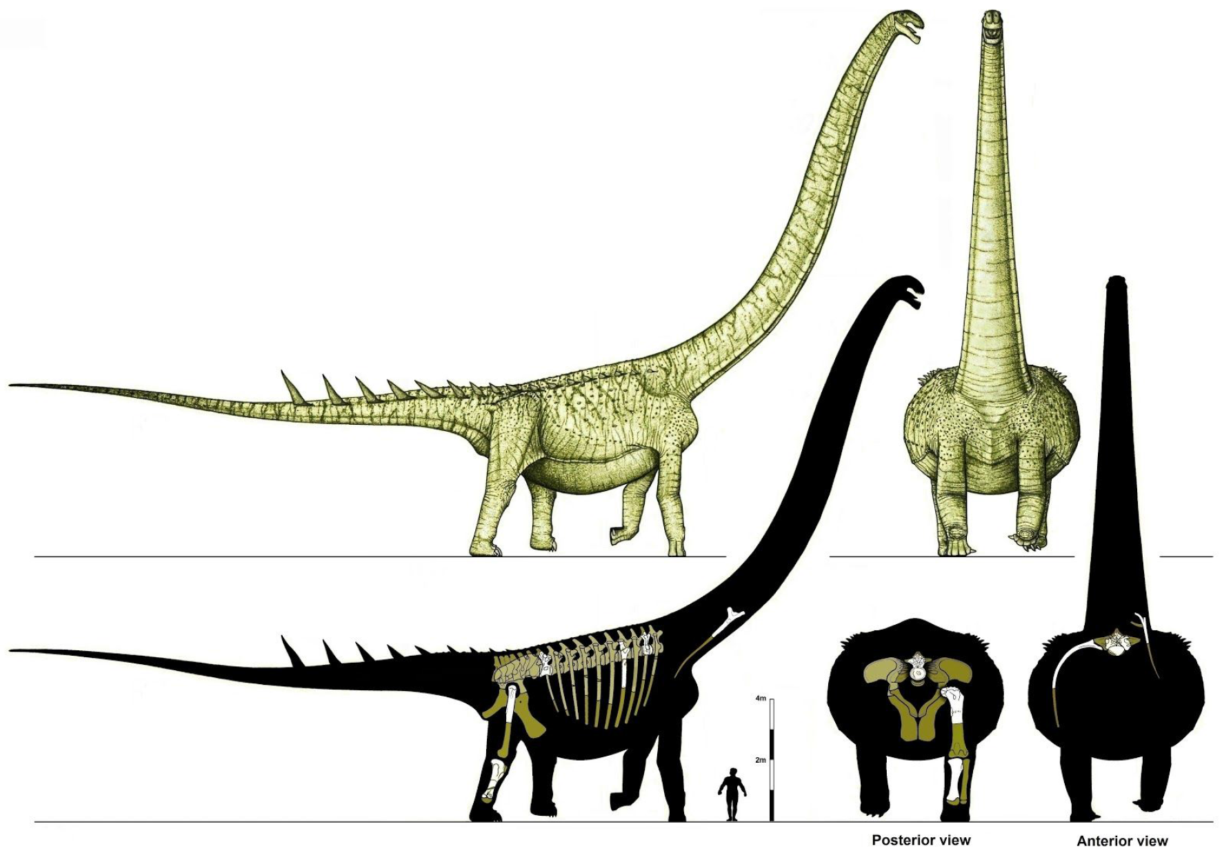 Skeletal and life restorations of the Ruyangosaurus giganteus holotype by Nima Sassani. Osteoderms hypothesized based on Vidal, Ortega, and Sanz (2014). Beige elements are based on undescribed material likely referable to the holotype specimen. Scale bar equals 4m.